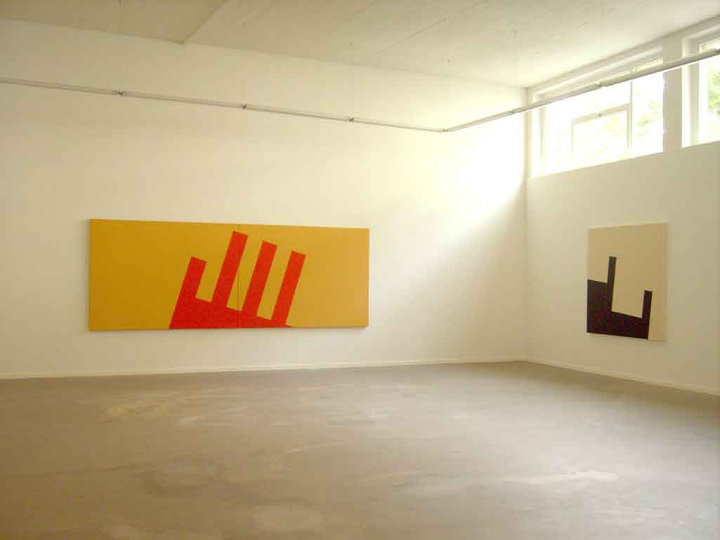 Exposición individual, Galería Ursula Huber, Basilea 2008